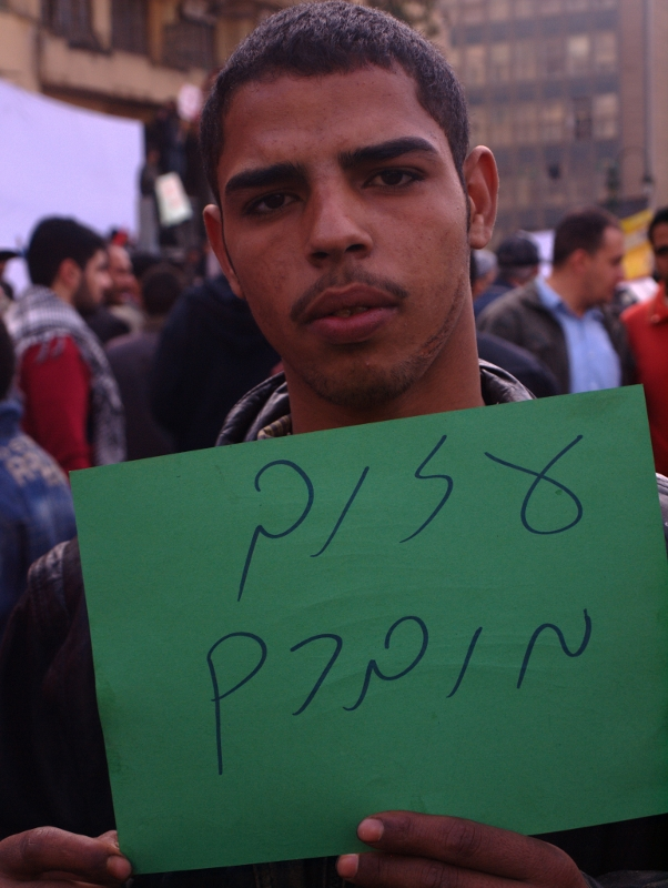 A demonstrator held up a sign that says "Leave, Mubarak" in Hebrew. "A message for Netanyahu," he said.